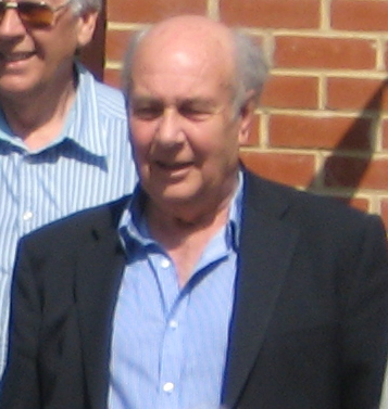 The English television writer and producer Harold Snoad during a Dad's Army celebration at Bressingham Steam Museum in Norfolk, May 2011.